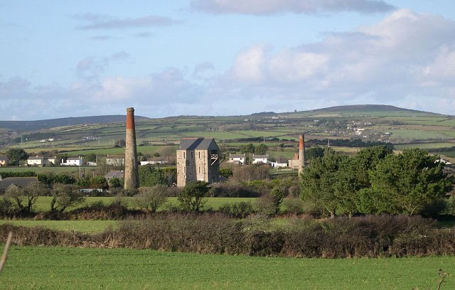 Tregurtha Downs Mine. Looking northwards towards the old engine house and chimneys from the road to the west of Goldsithney